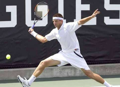 2009 NCAA tennis men's singles champion Devin Britton.